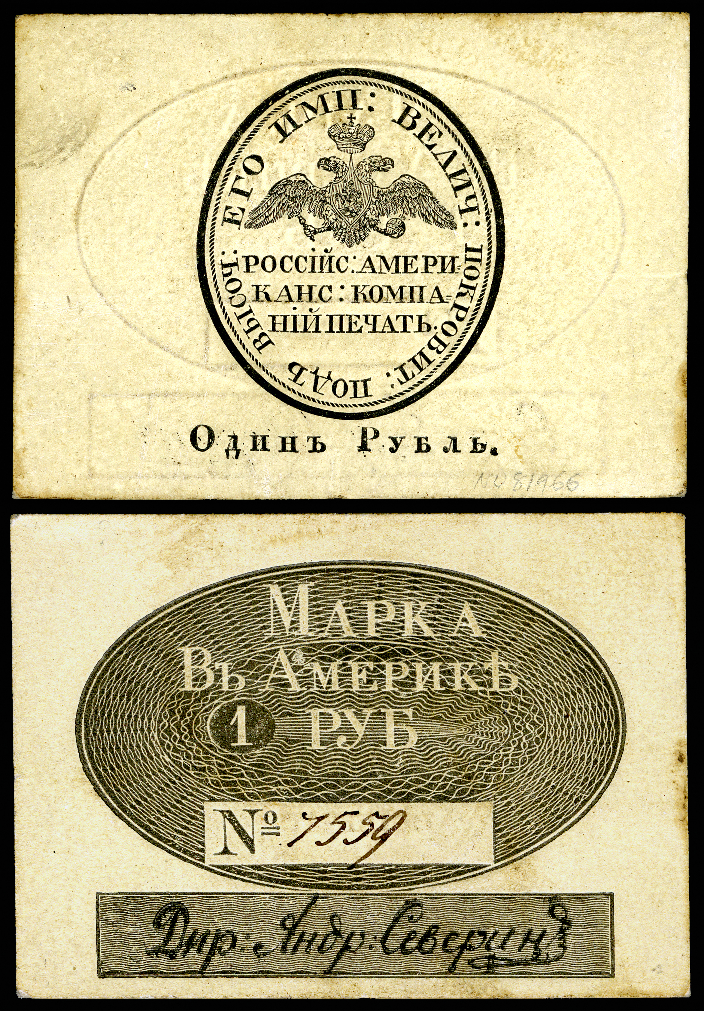 1 Ruble printed on vellum or parchment by the Russian-American Company. Used as a form of company scrip in Alaska when it was a possession of the Russian Empire. On the obverse, the horizontal text immediately beneath the double-headed eagle reads “Seal of the Russian American Company.” The oval text reads “under august protection of His Imperial Majesty.” Under the oval is the value of the note “one ruble.”